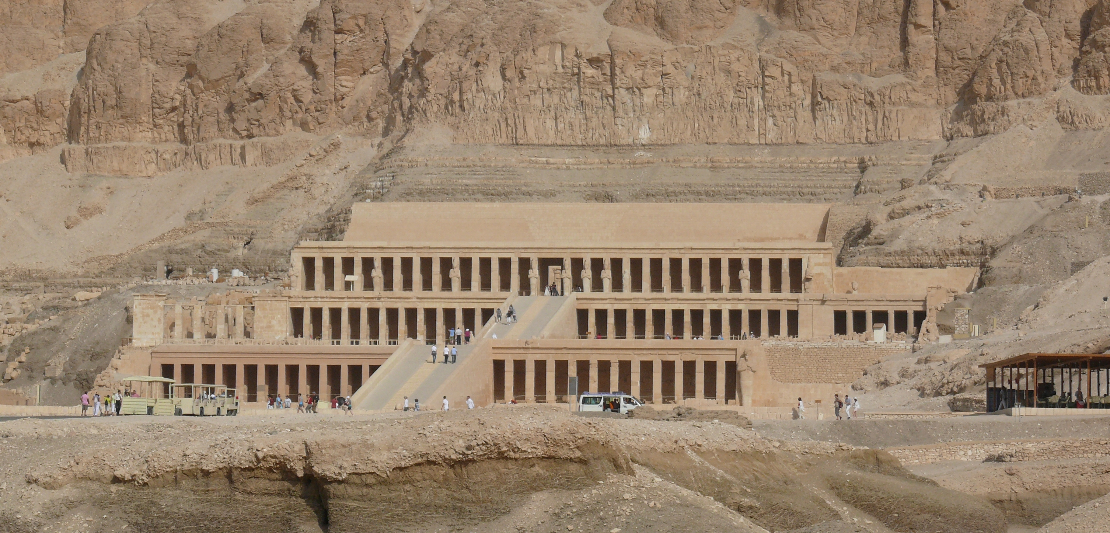 The Mortuary Temple of Queen Hatshepsut, located beneath the cliffs at Deir el Bahari on the west bank of the Nile near the Valley of the Kings in Egypt.